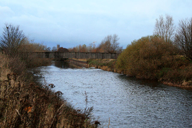 A Pipe Bridge Over the Derwent With the tower of Derby Cathedral in the distance.